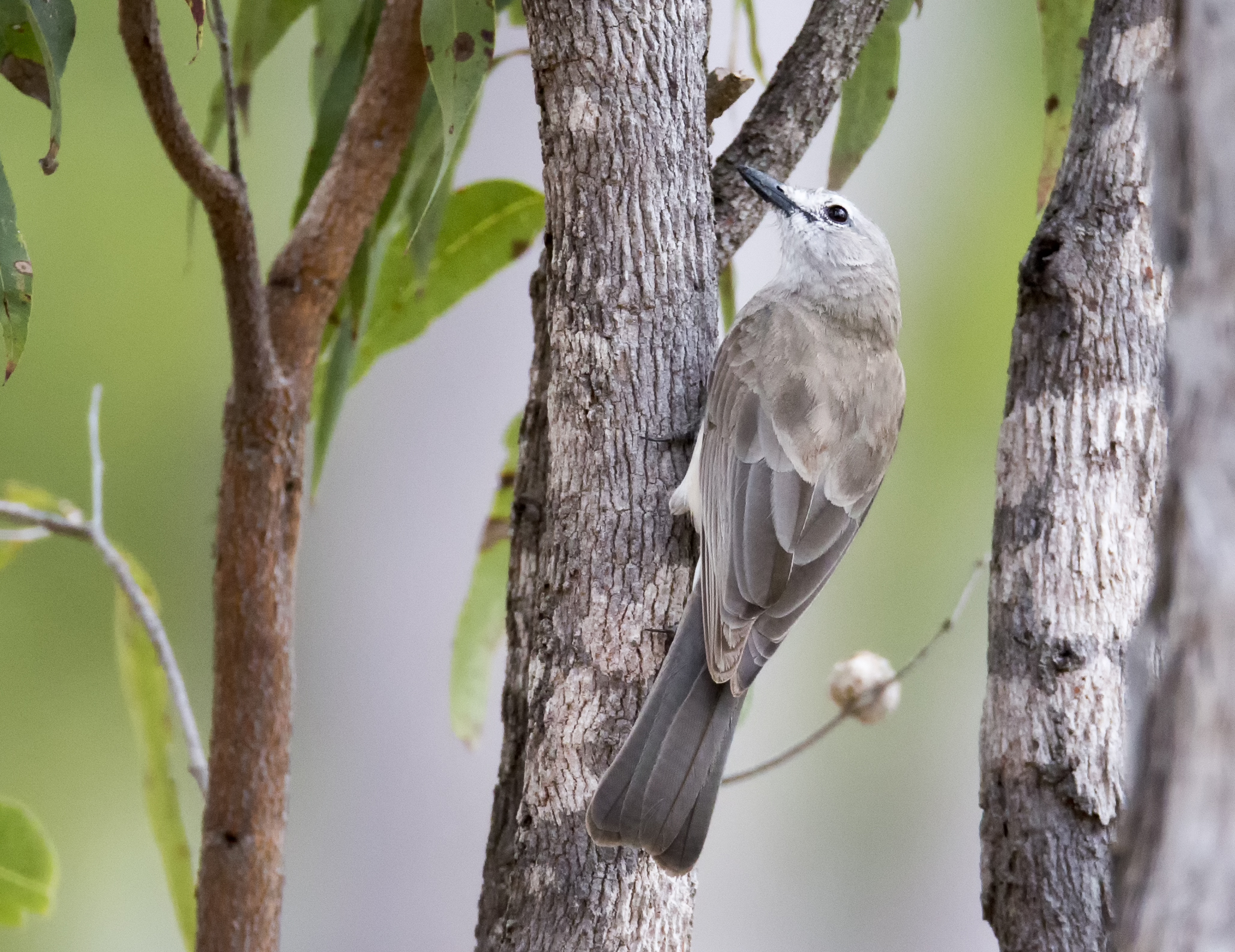 We saw this one on Cape York, we dont recall seeing one down this way. Beautiful song. It was eating insects off the tree bark. Seen near the Wenlock crossing